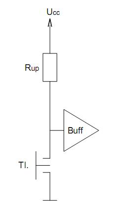 conect pull up rezistor with button